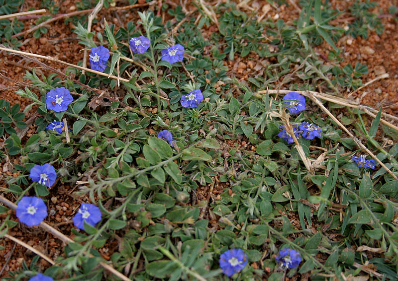 Dwarf Morning-glory Evolvulus alsinoides in Hyderabad , India.